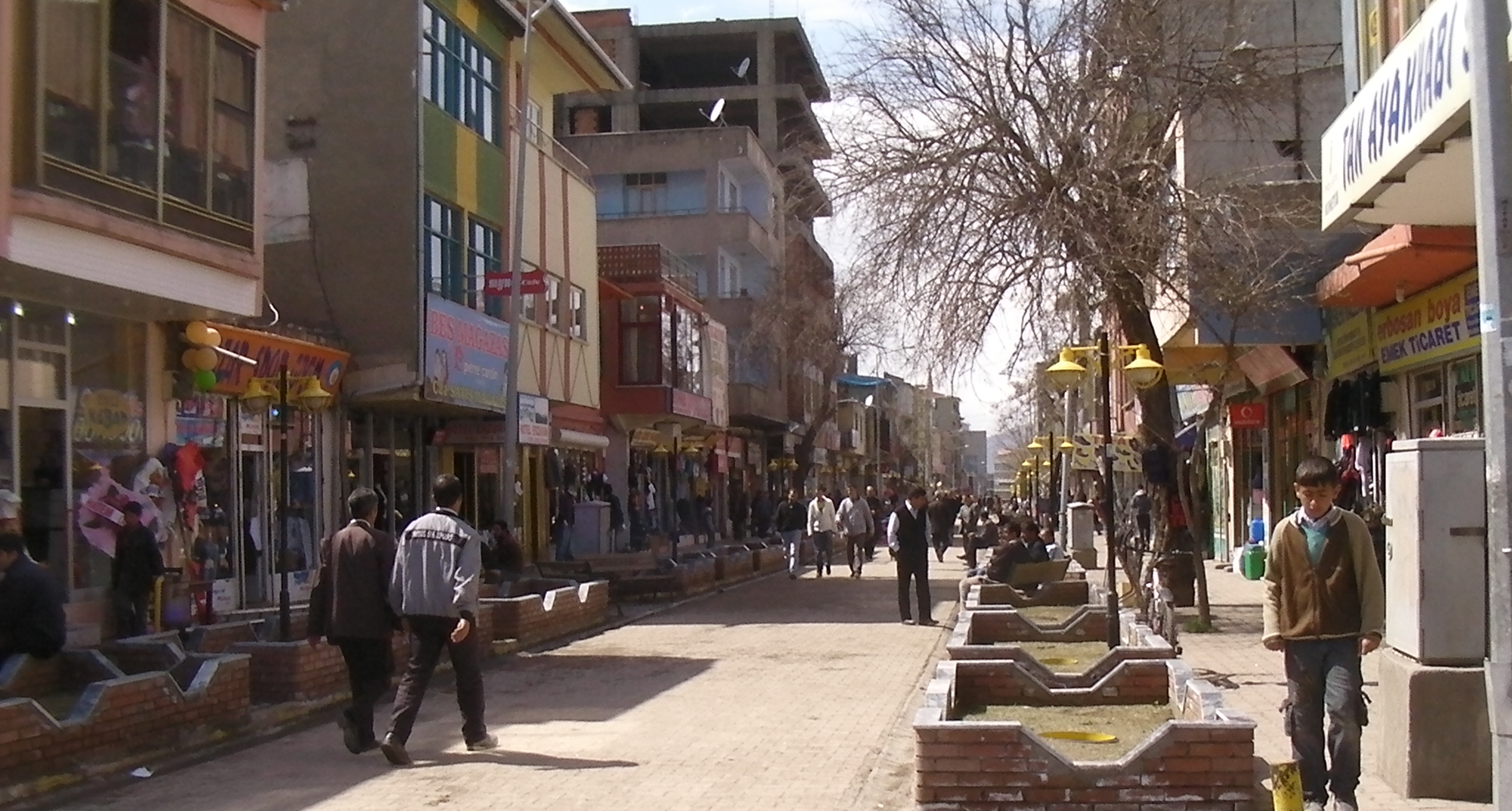 View of İsmail Beşikçi Avenue in Doğubayazıt, Turkey, just northwest of the bus station. Altitude 1600 meters.